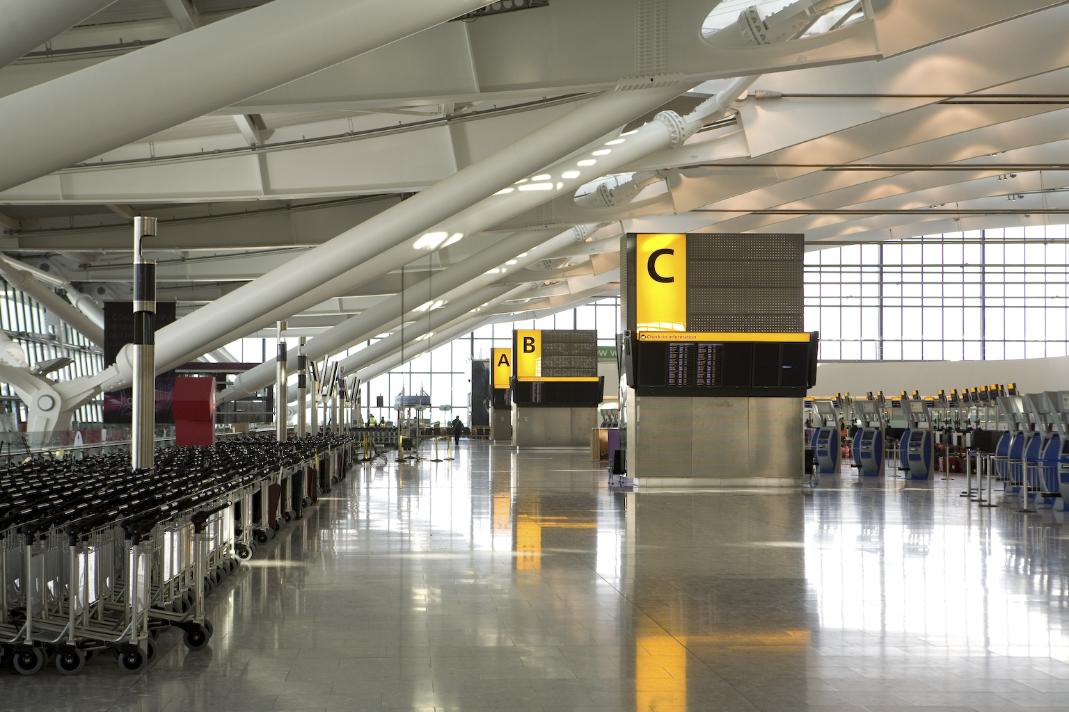 Heathrow Terminal 5 – Departures